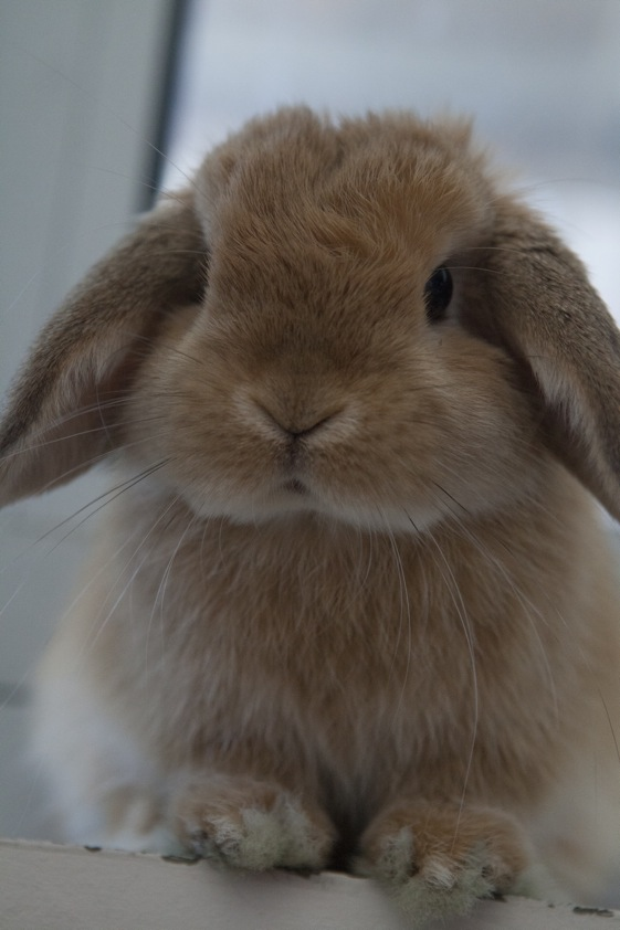 Pet name:QQ Summer, was born on 26 January 2011, England. Breed: miniature lop. The Miniature Lop was recognised by the British Rabbit Council in 1994 (Lop Breed-No.8), with a maximum weight of 1.6kg. It is the smallest of the Lop eared breeds.